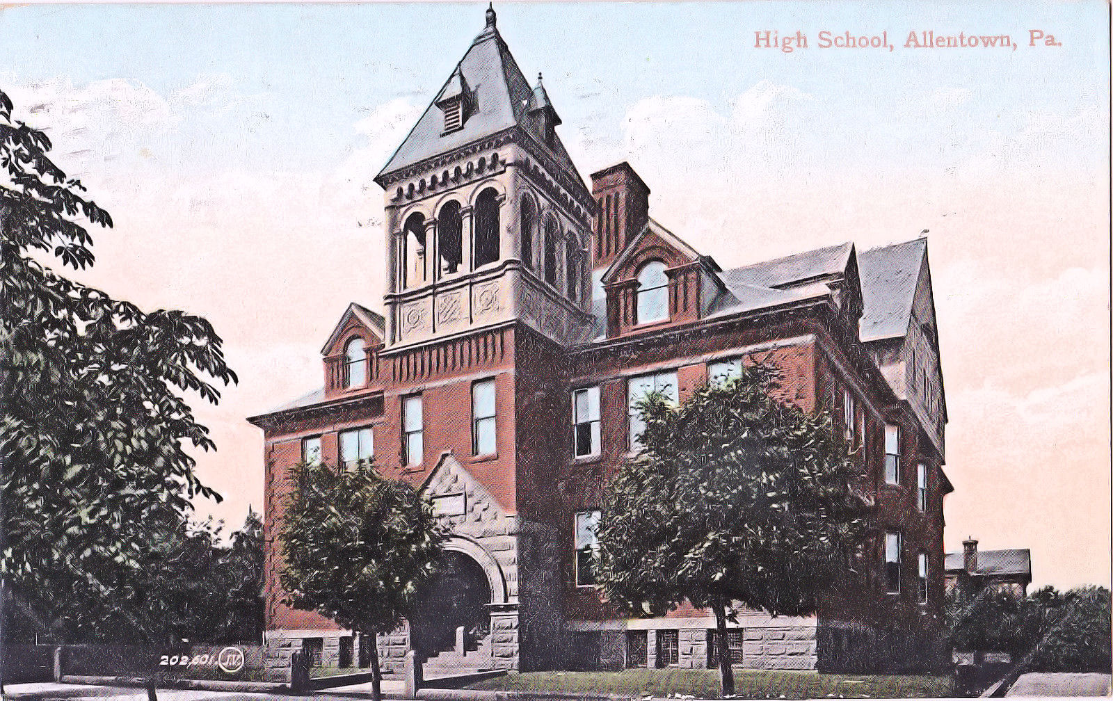 1906 postcard photo of Allentown's first building erected exclusively as a high school. The building was opened in in 1869 as the Central School, although construction had begun in 1858. In 1893, it became Allentown High School when high school classes were transferred from the Wolfe building at Lumber and Chew Streets, the city's first high school. however, it was only used as a high school for 23 years as in 1917 a much larger high school was opened at Seventeenth and Linden/Turner Streets. Later renamed "Central Junior High School", the school taught middle grades until 1957, when it was first converted to a citywide sixth grade center. In 1981 it was realigned as an elementary school as "Central Elementary School", teaching grades Kindergarden though Five. The school has been expanded several times over the years. The 1893 structure was destroyed by a massive fire in 1967, then reopened as a new building in 1970.